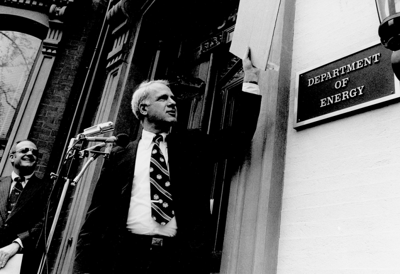 Depicted person: James R. Schlesinger – United States Secretary of Defense; United States Secretary of Energy; economist, academic and educator